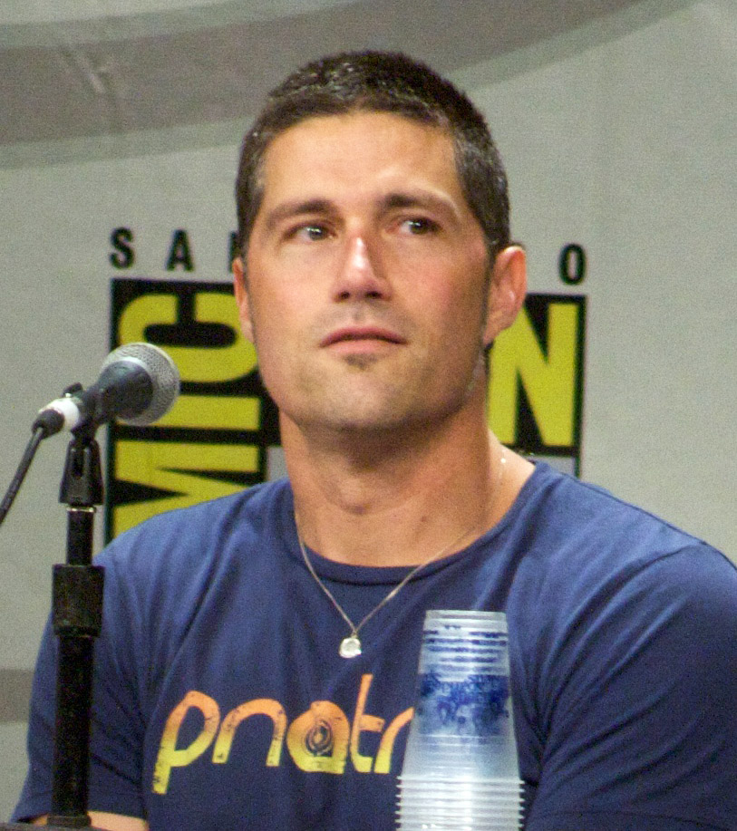 Matthew Fox at the 2008 Lost Comic Panel.